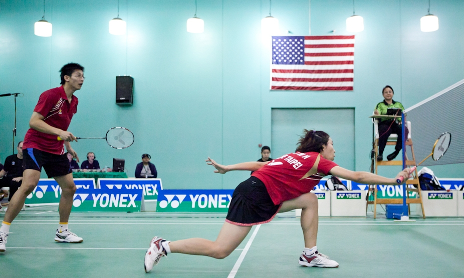 Chen Hung-Ling (left) and Cheng Wen-Hsing